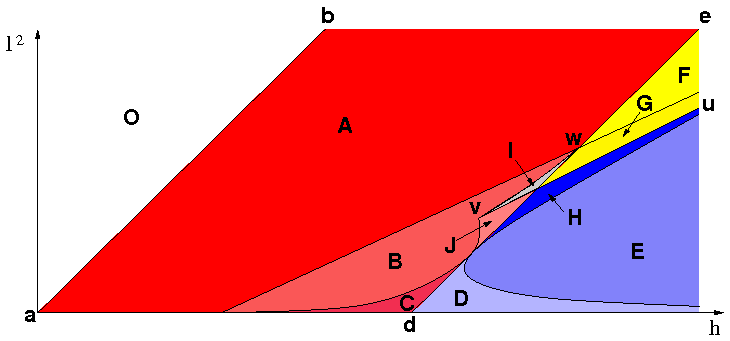 Bifurcation diagram of the Kovalevskaya top